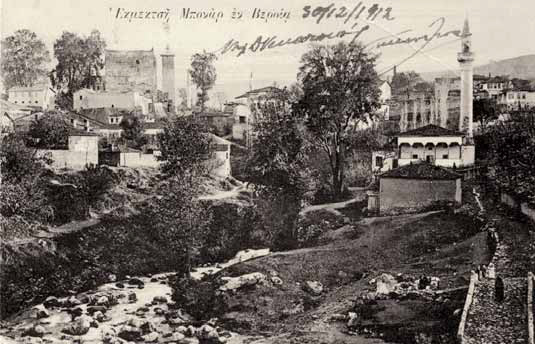 Bair cami (Barbutas)